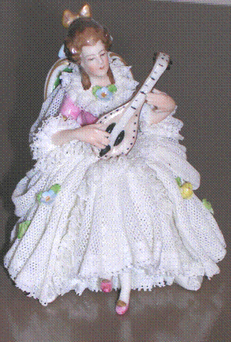 Dresden Figurine from a private collection in Sicily. Photograph owned by uploader and released by him into public domaine